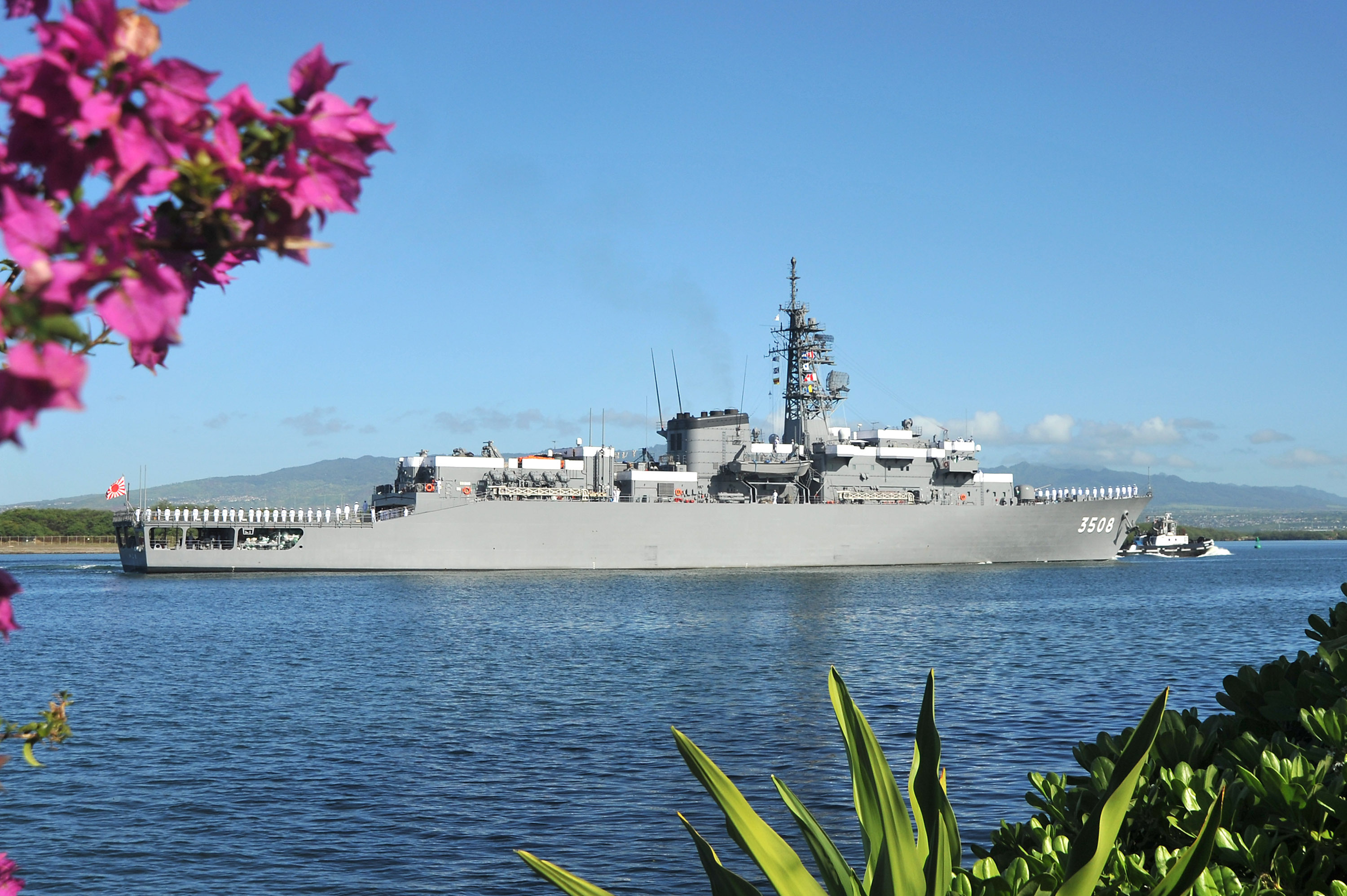 The Japan Maritime Self-Defense Force training squadron ship JS Kashima (TV 3508) arrives at Joint Base Pearl Harbor-Hickam, Hawaii, June 3, 2014, for a scheduled port visit. (U.S. Navy photo by Mass Communication Specialist 3rd Class Johans Chavarro/Released)